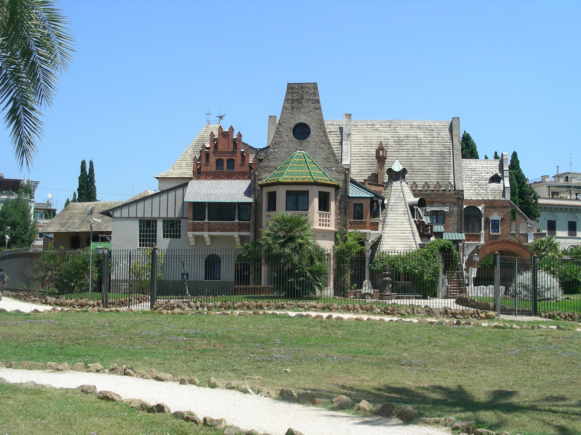 Rome, Villa Torlonia, Casino delle civette, east side